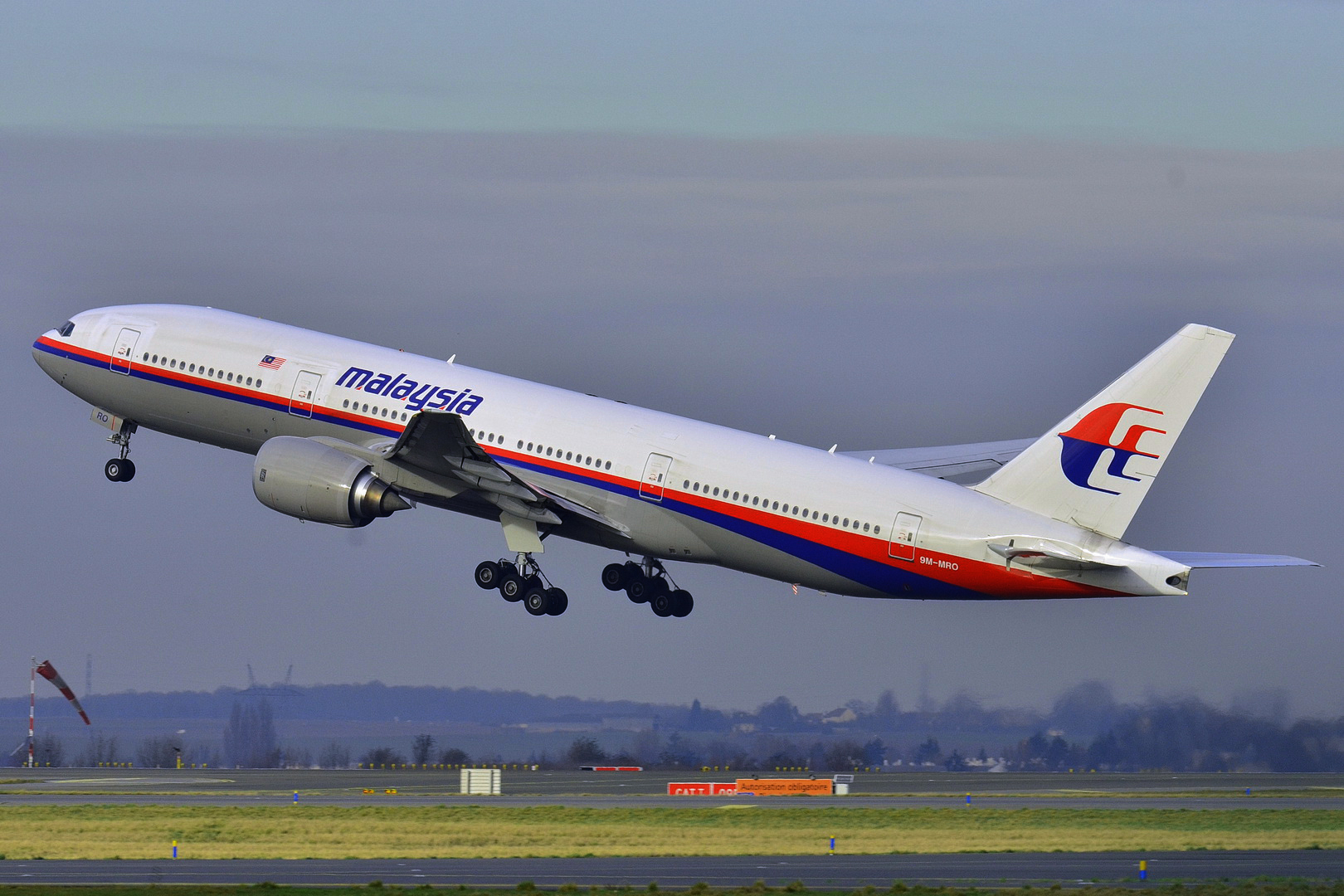 Malaysia Airlines Boeing 777-200ER (9M-MRO) taking off at Roissy-Charles de Gaulle Airport (LFPG) in France.